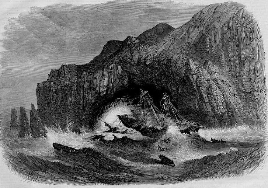 Wreck of the American ship General Grant on Auckland Island, in Illustrated London News, April 18, 1868